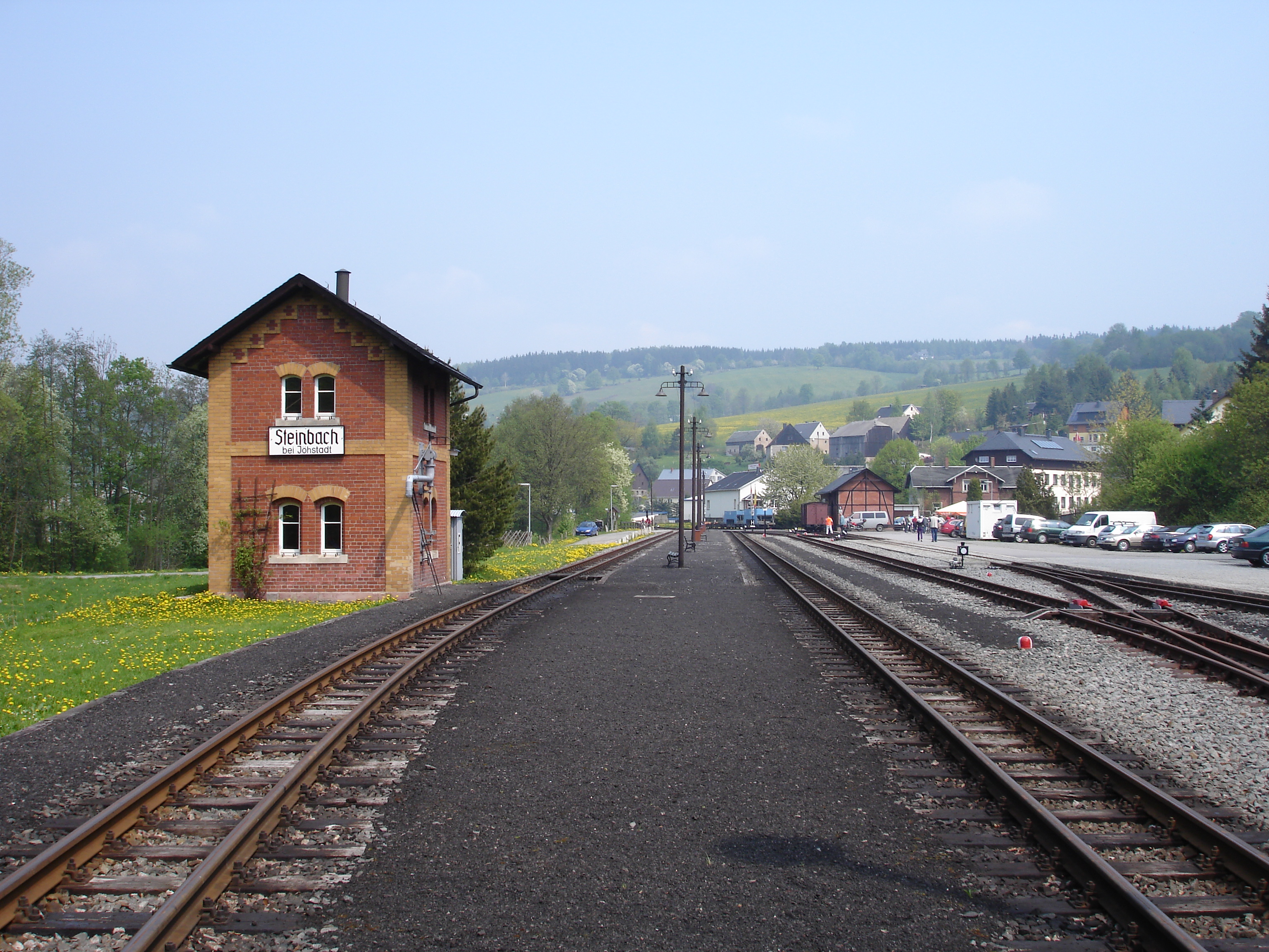 station Steinbach (b Jöhstadt), Preßnitztalbahn, Germany